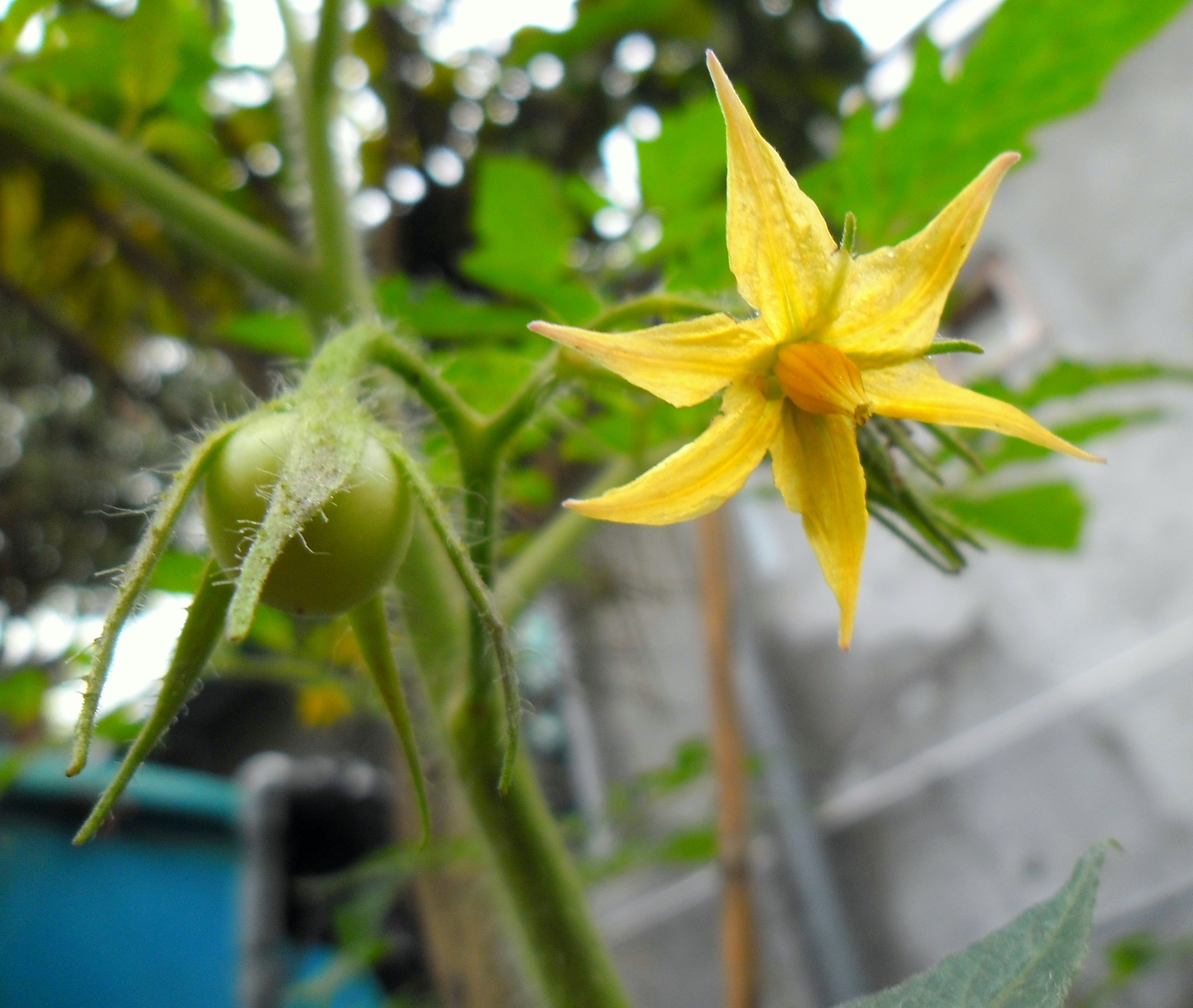 The Tomato, (Lycopersicon lycopersicum) flowering, associated with a young, developing fruit, as captured by Earth100.